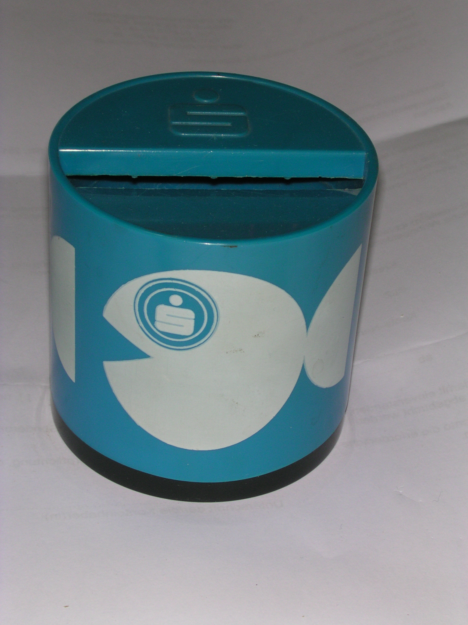 german money box ~ 1980